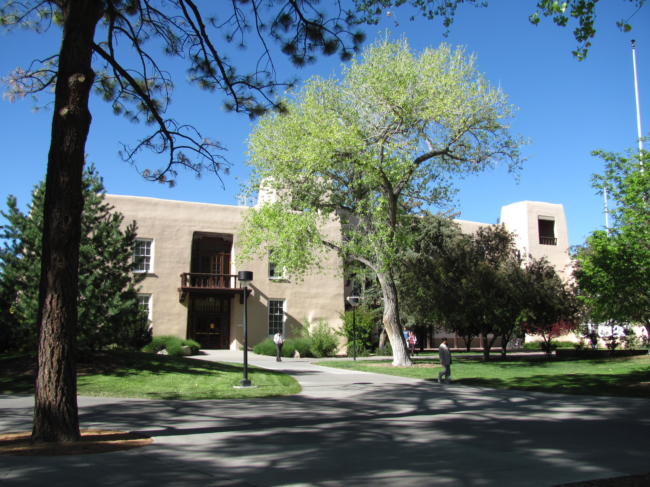 Scholes Hall, Albuquerque New Mexico